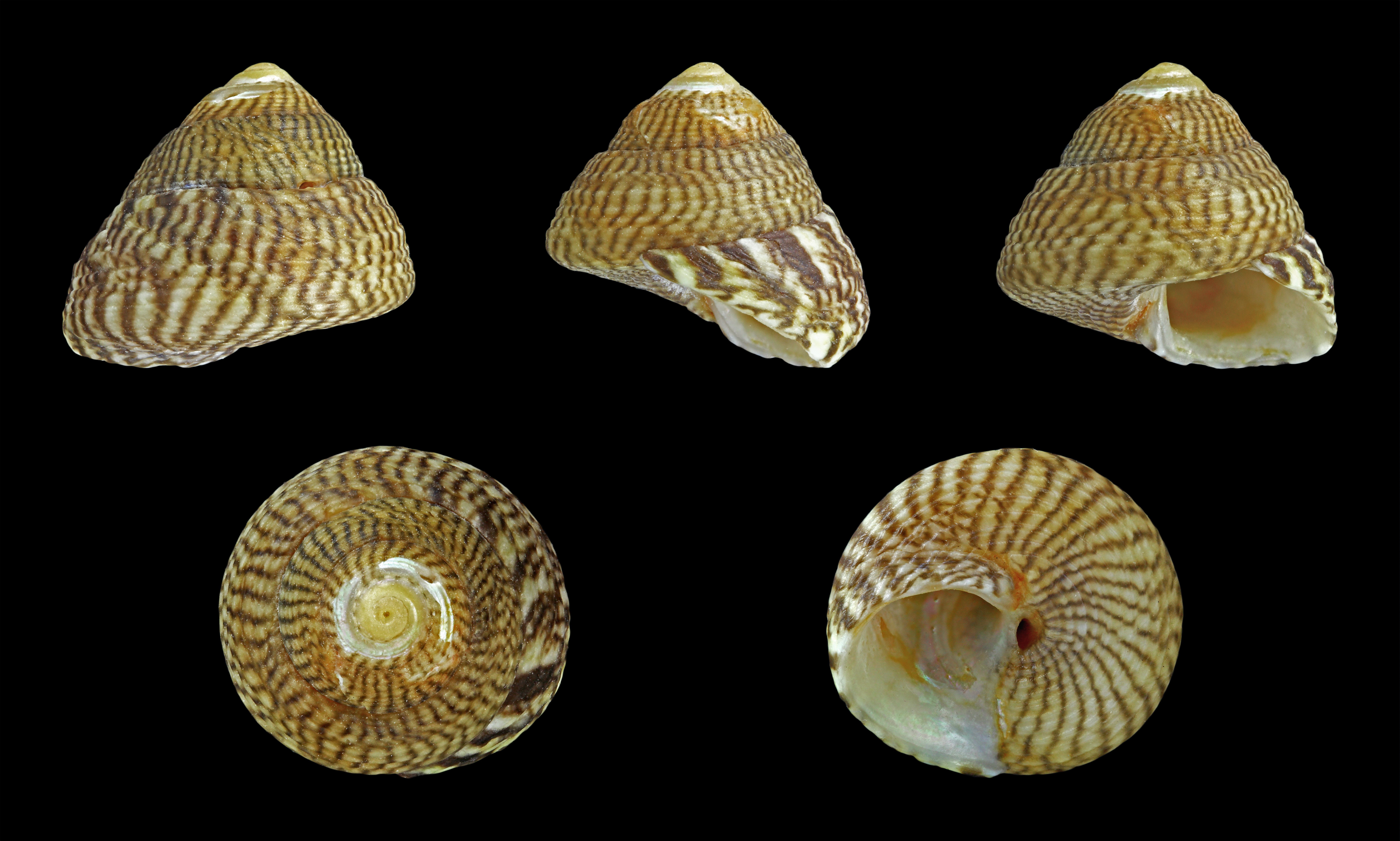 Grey Top Shell; Diameter 1.3 cm; Originating from Channel coast north of Caen, Normandy, France; Shell of own collection, therefore not geocoded.